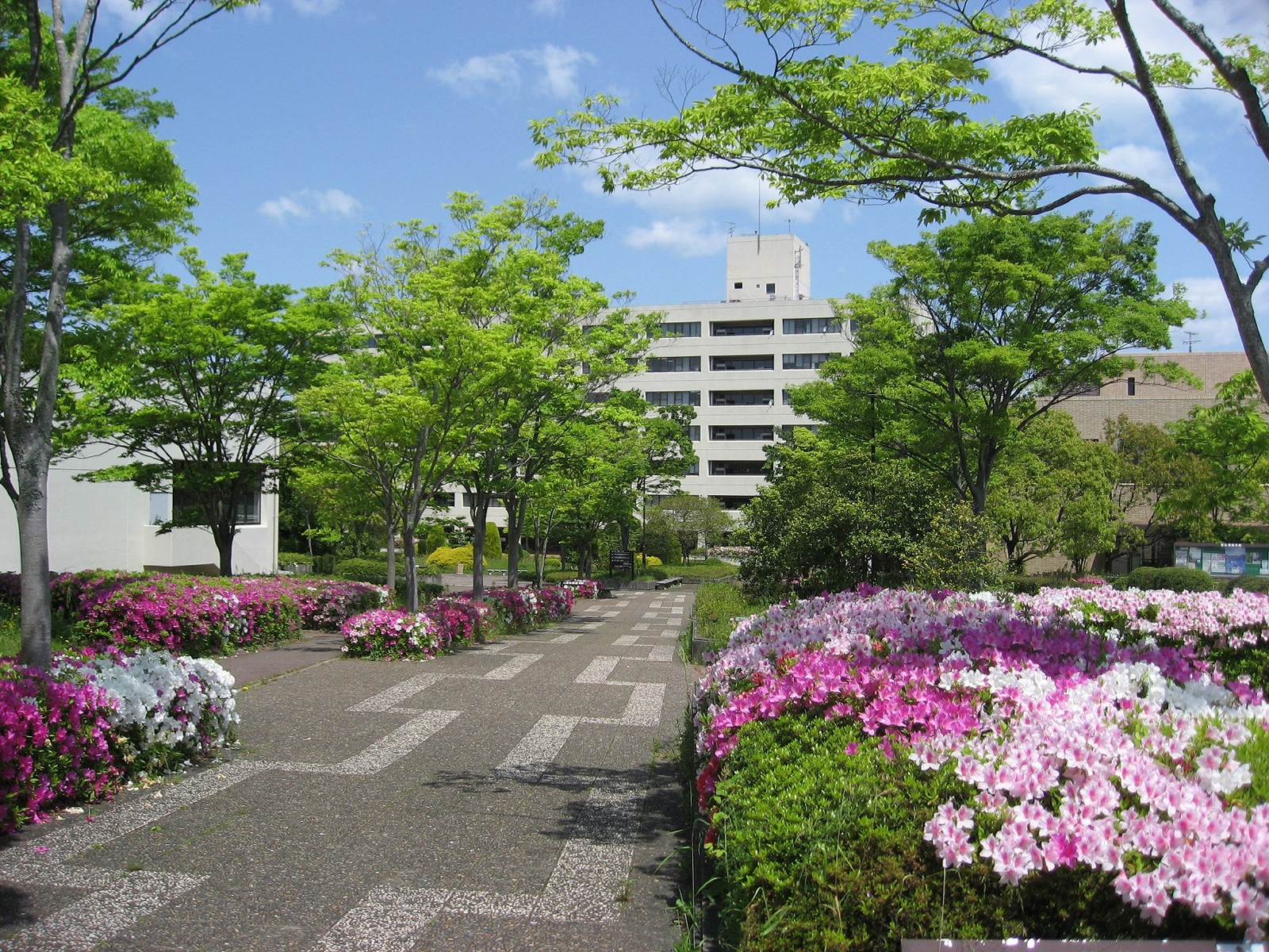 A photograph of Ureshino-dai campus of Hyogo University of Teacher Education, Kato-shi, Hyogo, Japan.